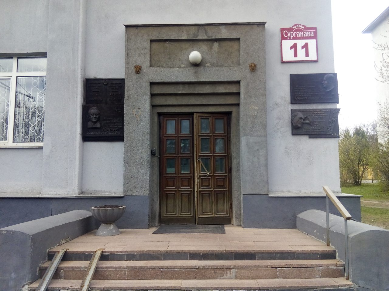 Entrance to the Institute of Mathematics of the National Academy of Sciences of Belarus (11 Surhanava Street, Minsk; 20th of April, 2019)